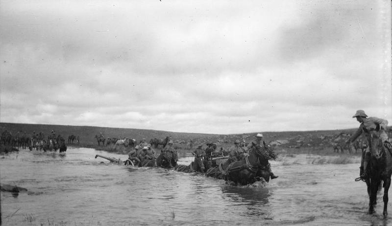 The Second Boer War, 1899-1902 The Royal Artillery gun crew transporting their gun across a river with the help of horses.